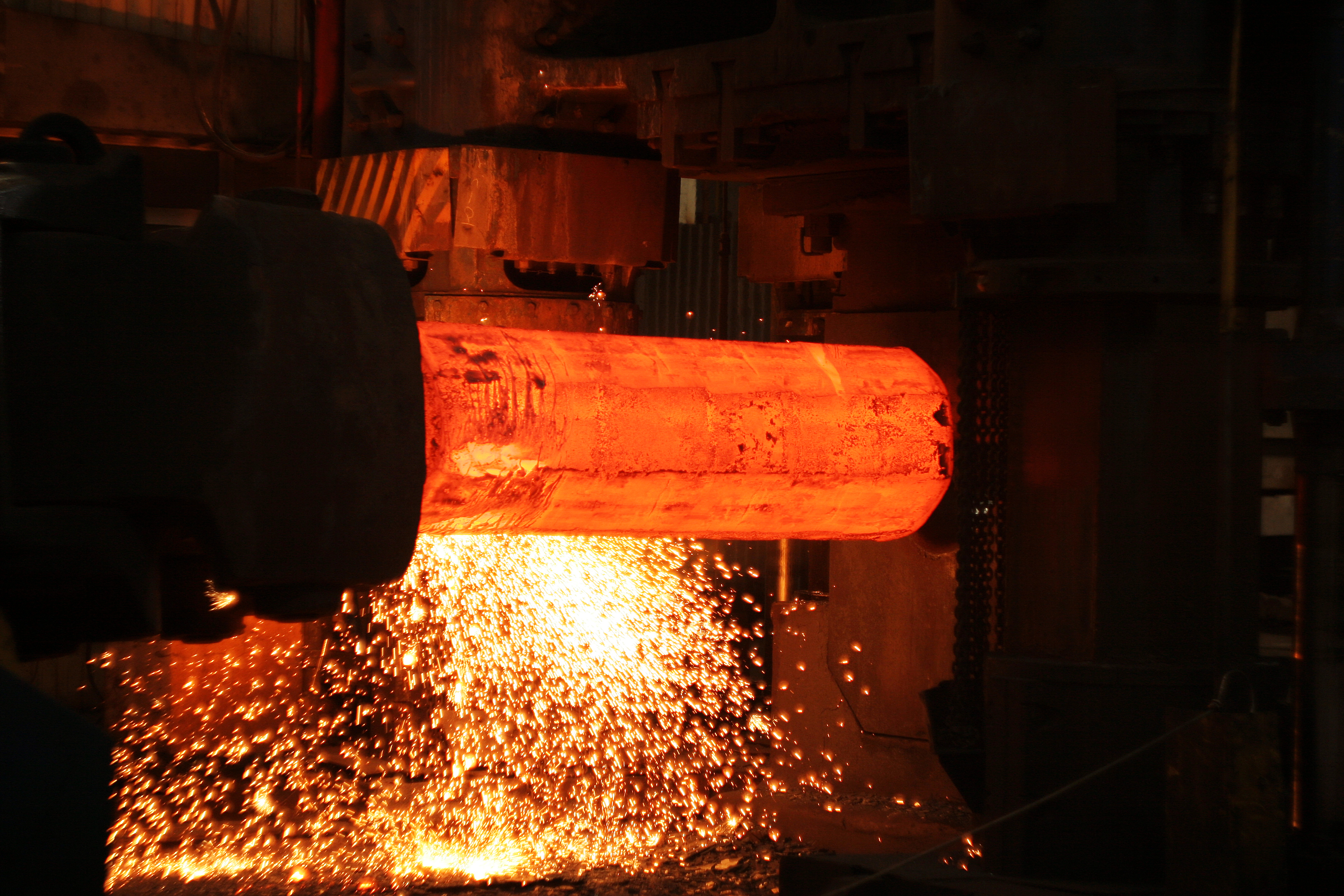 Thermal picture (visible range) resulting from the procedure of thermal control with a digital camera in the process of forging billet rolling mill rolls on a set AKK3000/30 PAO NKMZ